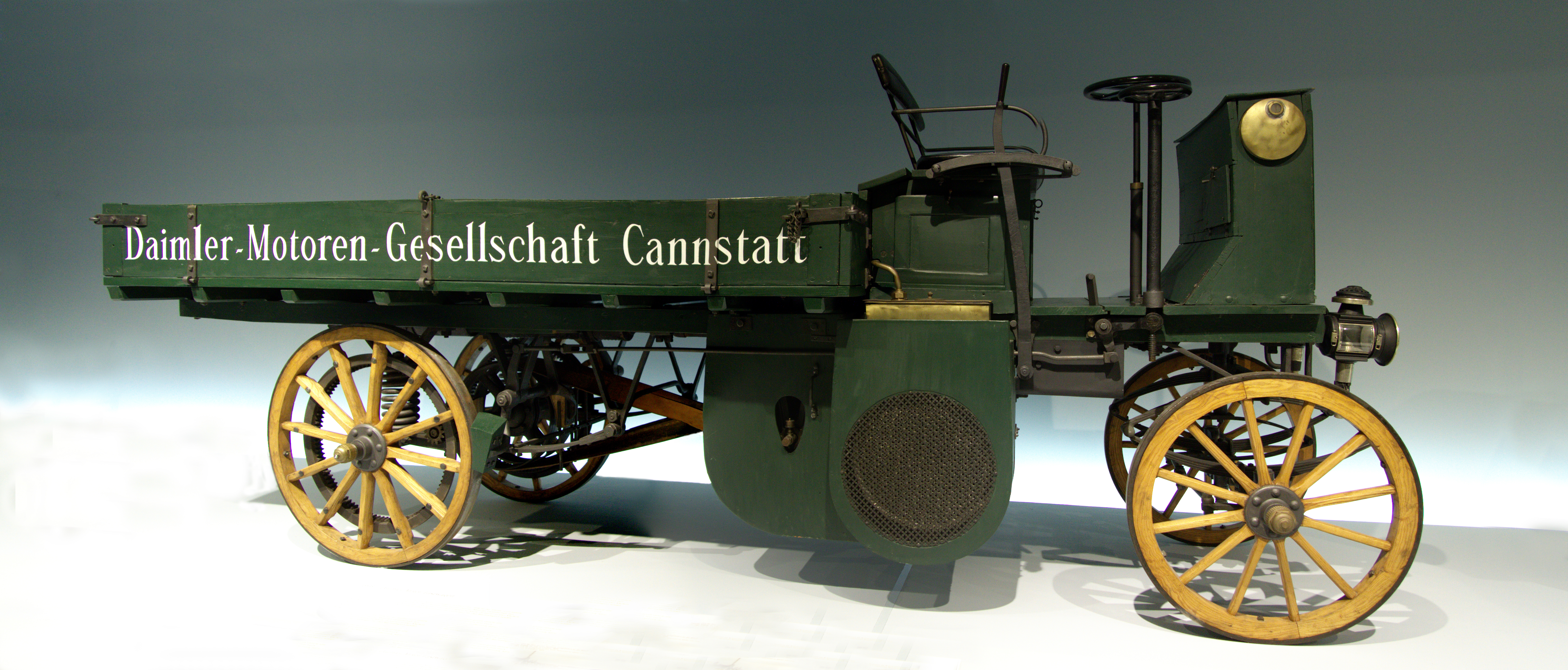 A Daimler Motor-Lastwagen (motor truck) of 1898 in the Mercedes-Benz Museum in Stuttgart. This was originally delivered to England by DMG (Daimler Motoren Gesellschaft, "Daimler Motors Corporation"). Its mid-mounted engine is a two-cylinder Phönix ("Phoenix") engine of 1,527 cc (93.2 cu in) displacement with a power rating of 5.6 PS (5.5 hp; 4.1 kW). At an engine speed of 720 rpm, the truck reaches a top speed of 12 km/h (7.5 mph). It can carry a payload of 1,250 kg (2,750 lb) and weighs 2.5 tonnes (5,500 lb). The drive takes place via a four-stage belt transmission to the rear wheels. Later trucks were built with a front engine and prop shaft. (This image is a composite of two separate photos.)